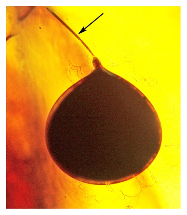 Detail of the gametocyst of the gregarine parasite, Primigregarina burmanica. that was released from the gut of cockroach in Burmese amber. Arrow shows a spore-filled sporoduct.